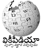 Logo of the Bishnupriya Manipuri Wikipedia